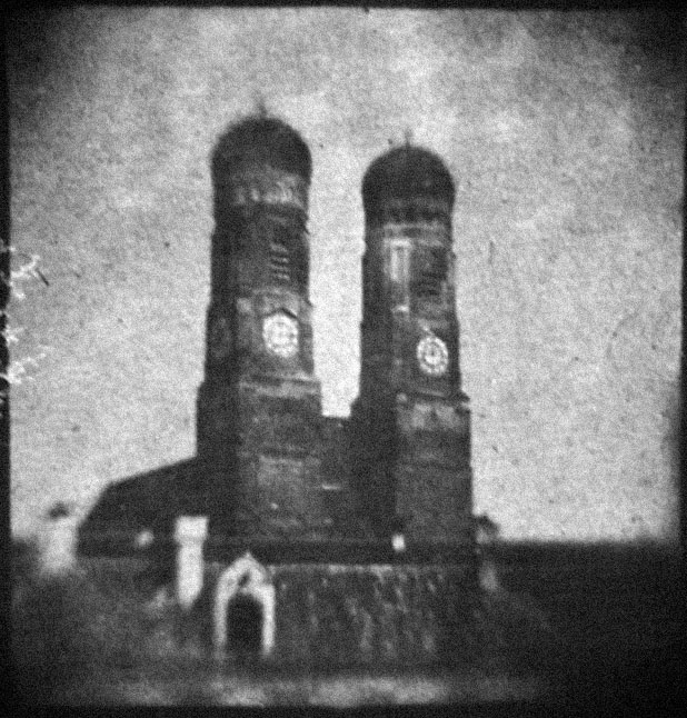 Towers of the Frauenkirche in Munich